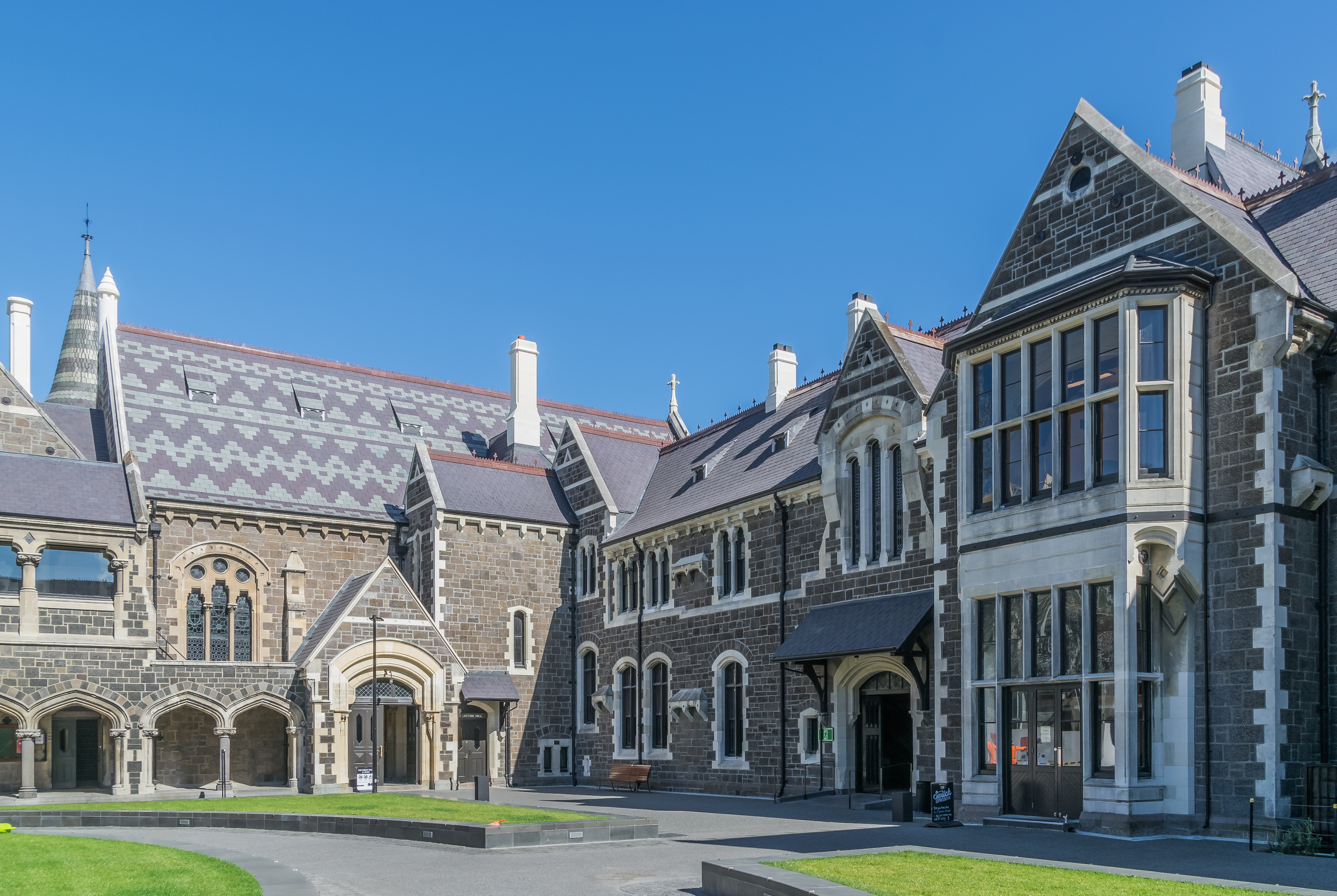 Courtyard of the Central Art Gallery in Christchurch, New Zealand